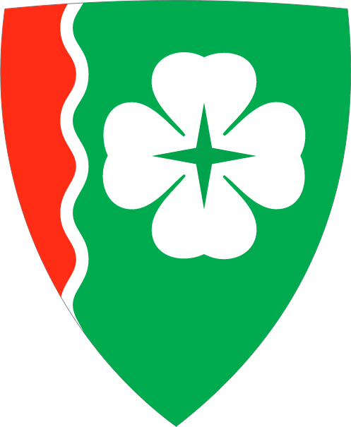 Coat of arms of Lääne-Nigula Parish, Estonia.